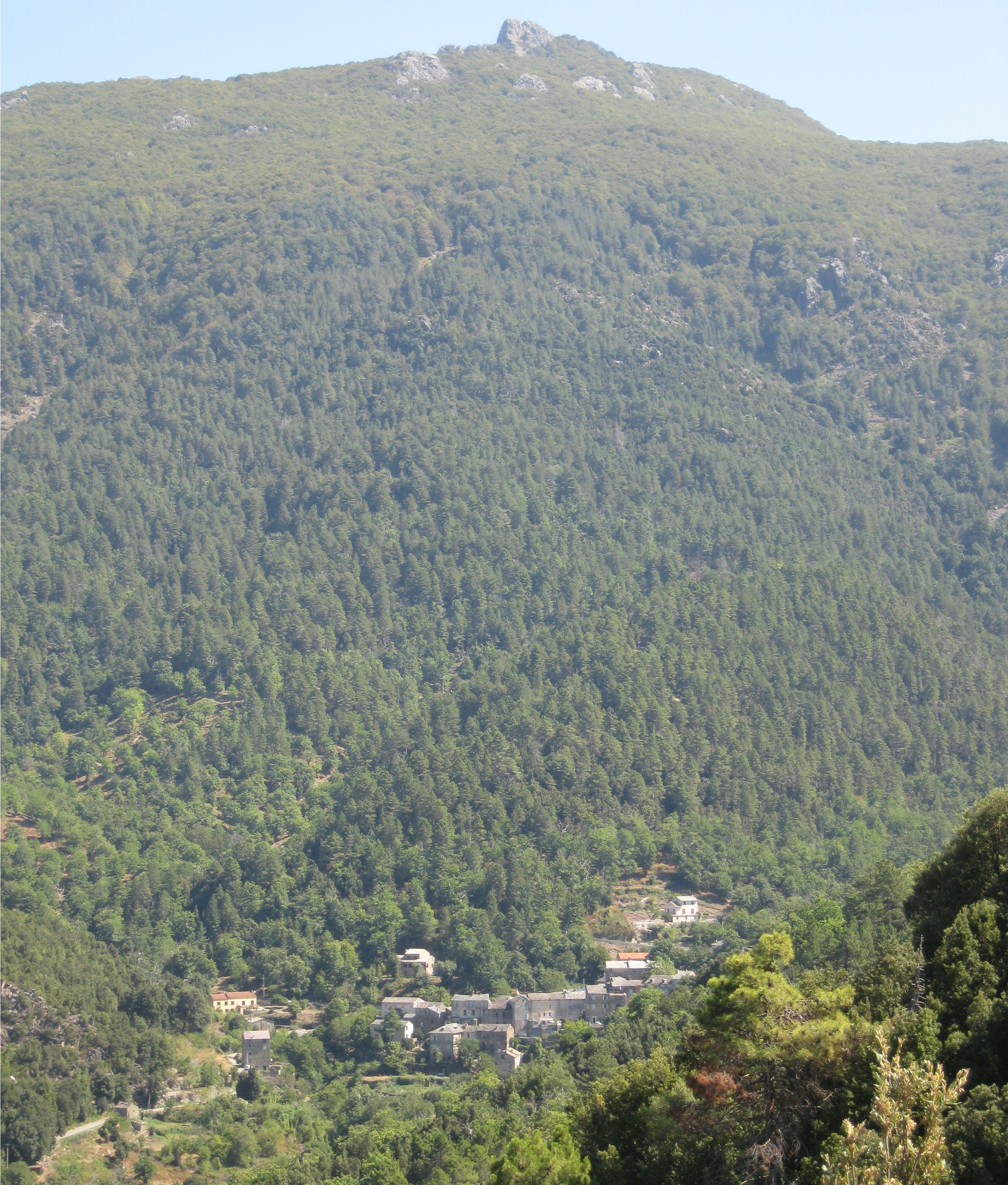 Own work, Author : ghjseppu. Date 2011.9.15 Saliceto (salgetu), Corsica. village au pied du San Petrone